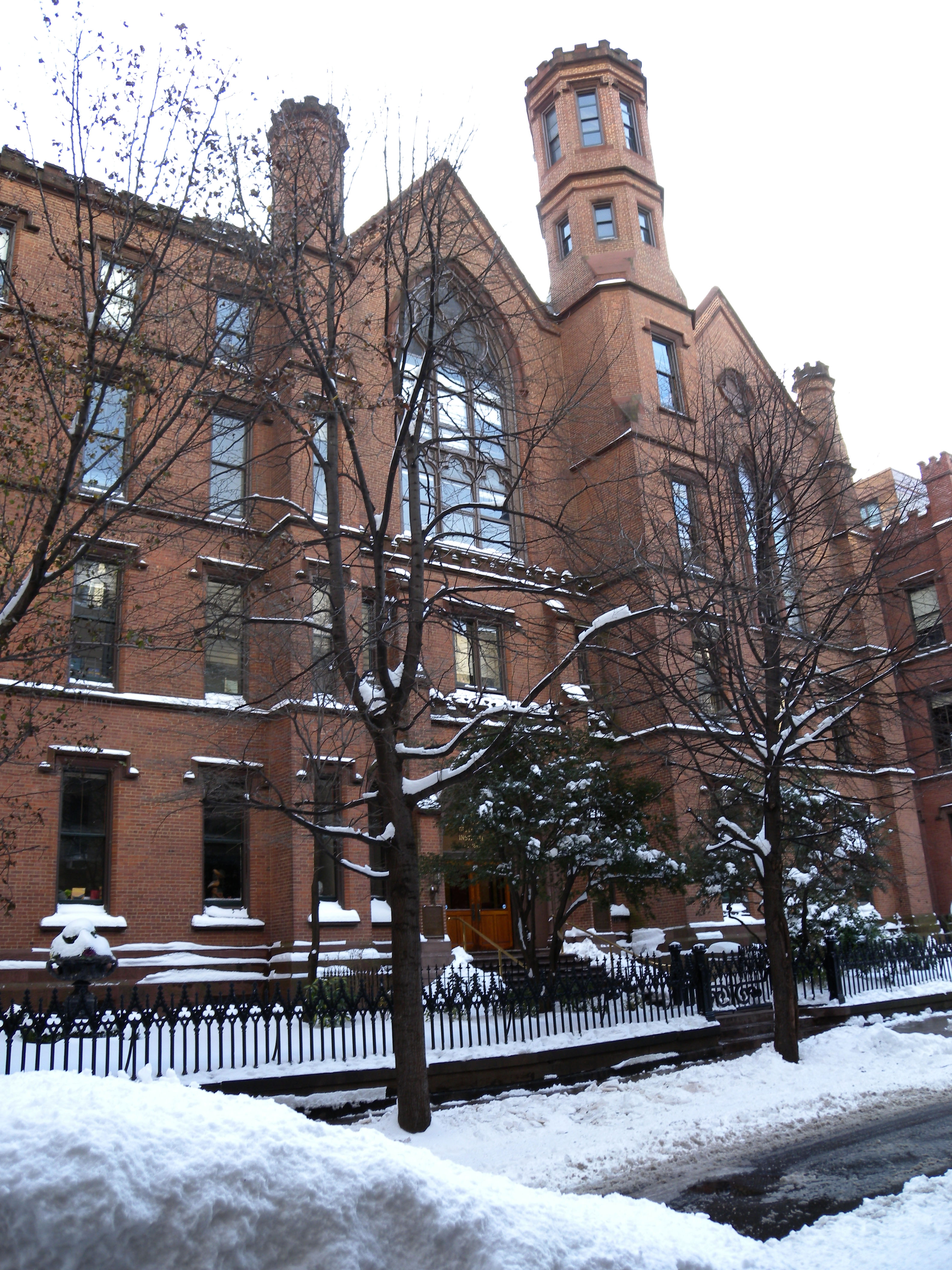 Looking southwest across Joralemon Street at Packer Collegiate Institute on a sunny afternoon after snowfall.